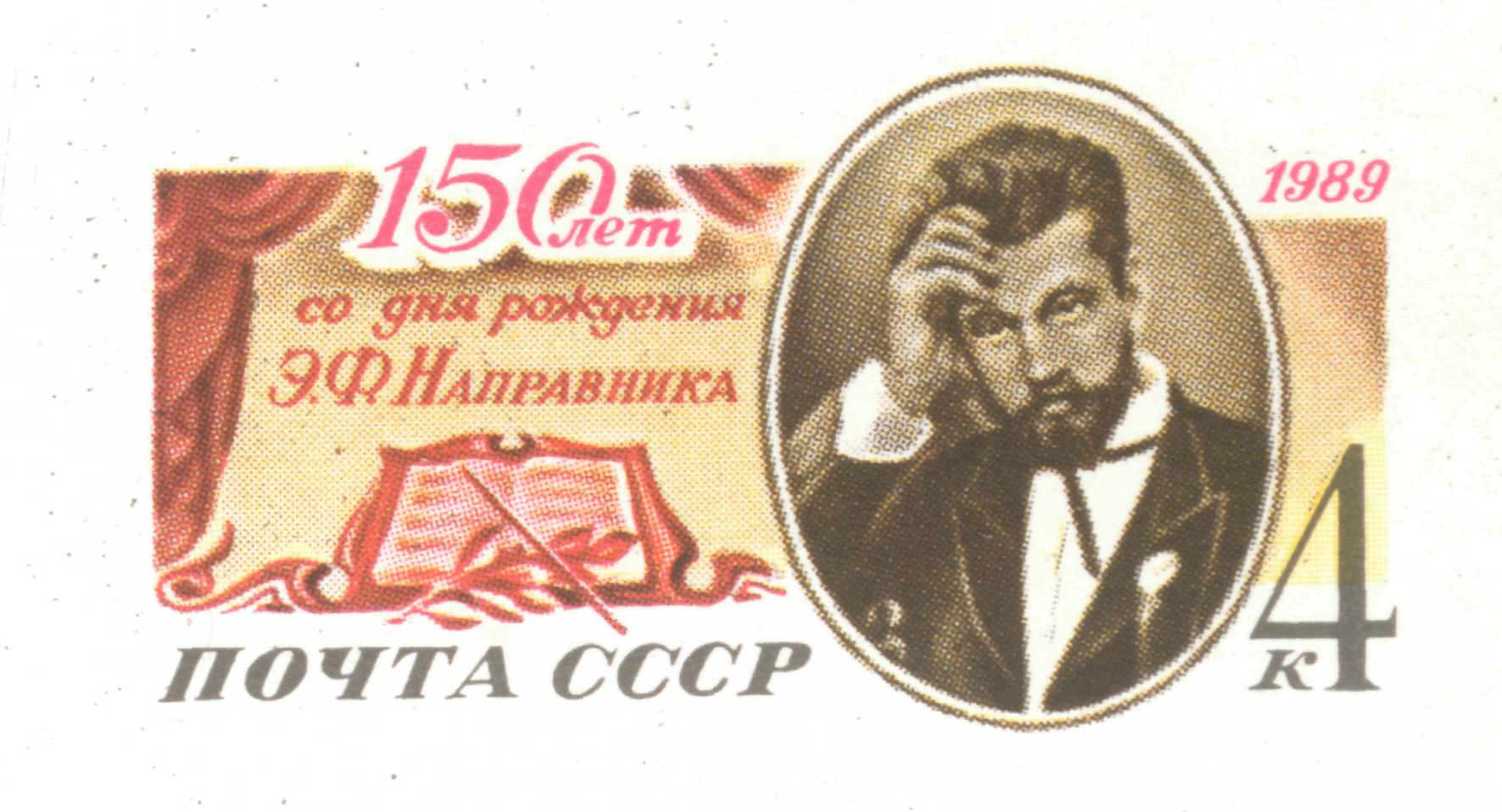 Soviet preprinted (original) stamp of 4 kopecks, 1989. Eduard Nápravník's 150th birthday (1839-1916). Czech composer. Detail of a postcard of the Soviet Union (postal stationery).